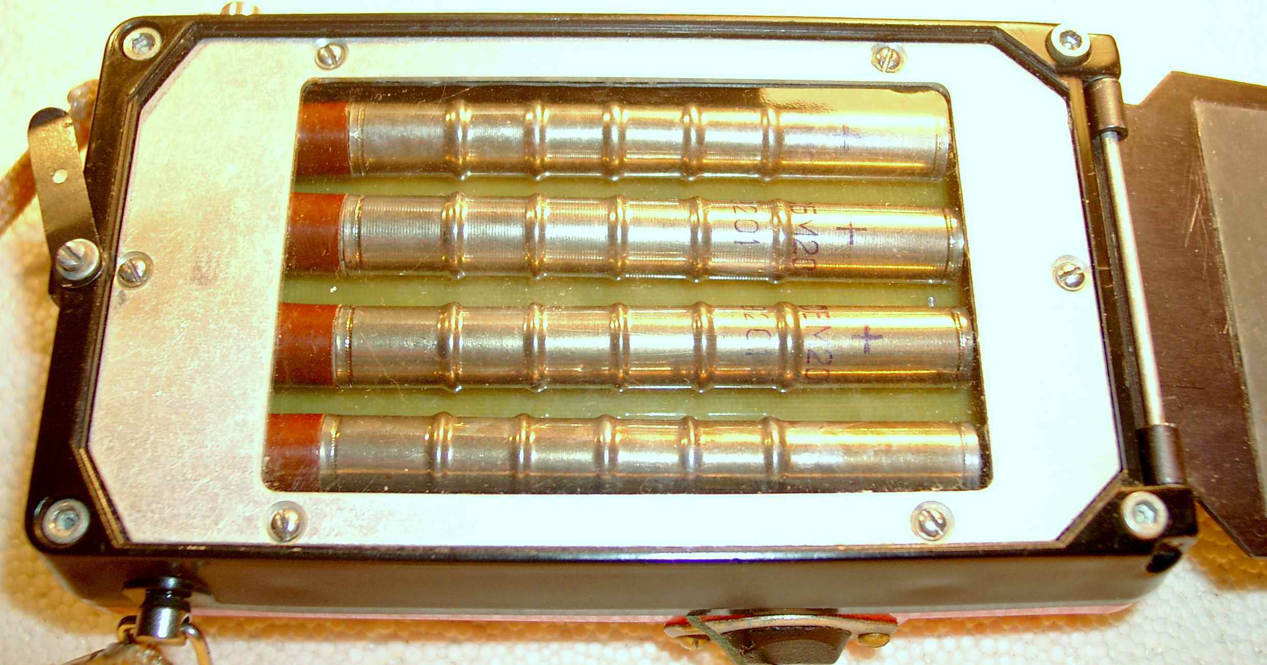 Dosimeter/radiometer Sosna (ex-USSR made). Back view. Four Geiger tubes, type SBM-20, are visible. Usually, only two tubes are mounted. This is to decrease measuring time, and thereby, time spent in contaminated area.